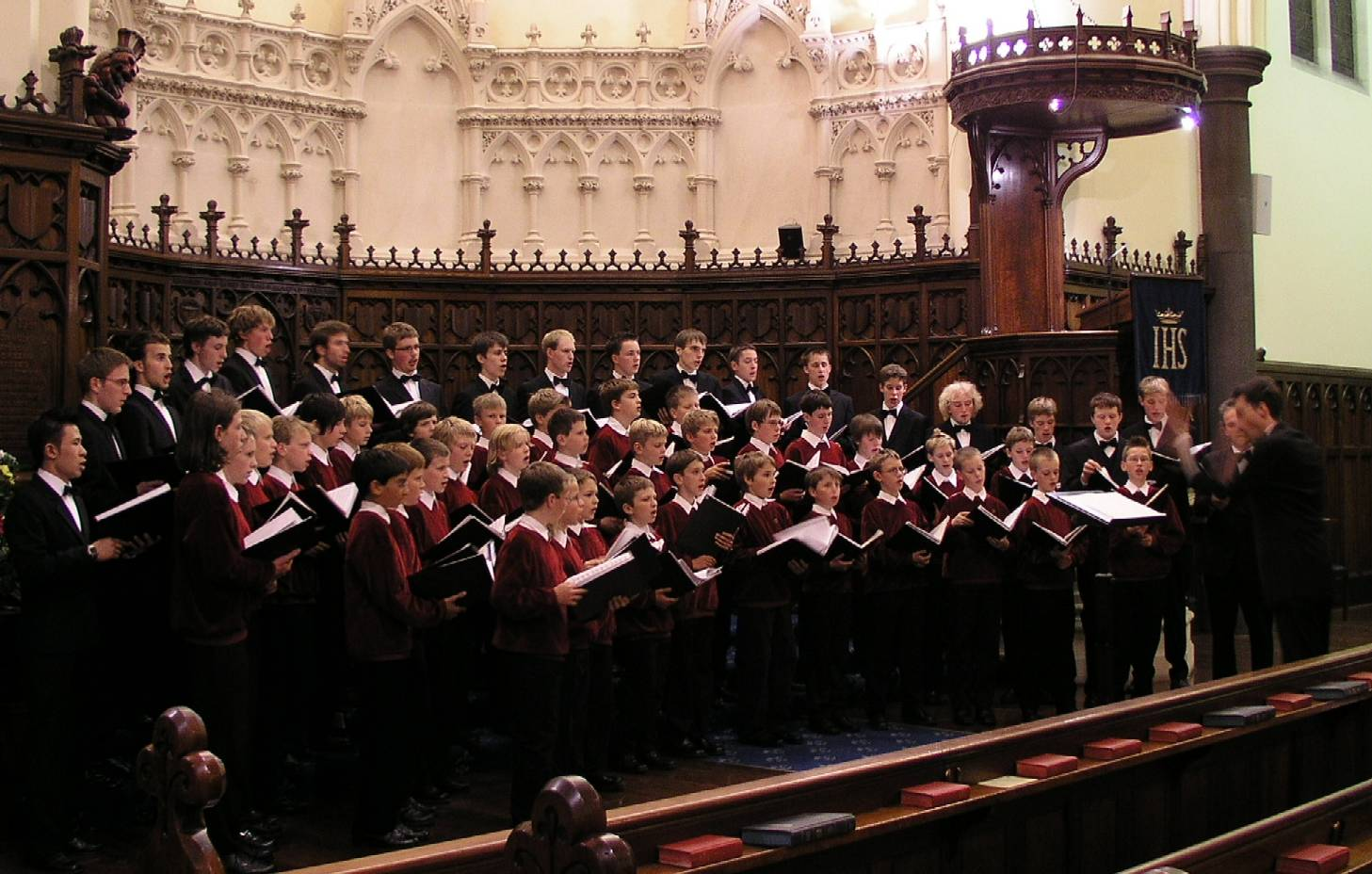 Chamber chor of the Domsingknaben of Freiburg, south Germany at the concert tour in Australia of 2006